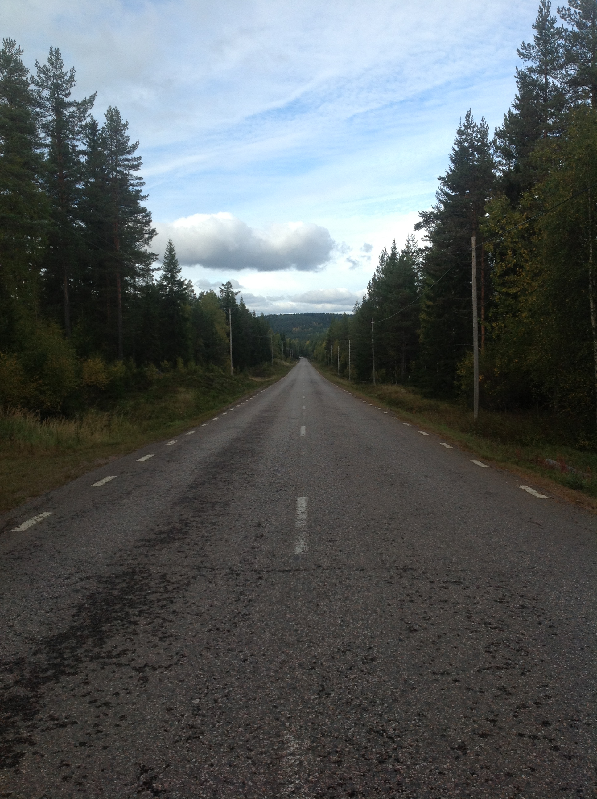 The distance between Svärdsjö and Svartnäs is 28 kilometres. The northern part of Svärdsjö parish is mostly forest where very few people live. From Svärdsjö the road goes through Vintjärn and Svartnäs before crossing the county border into Gästrikland.